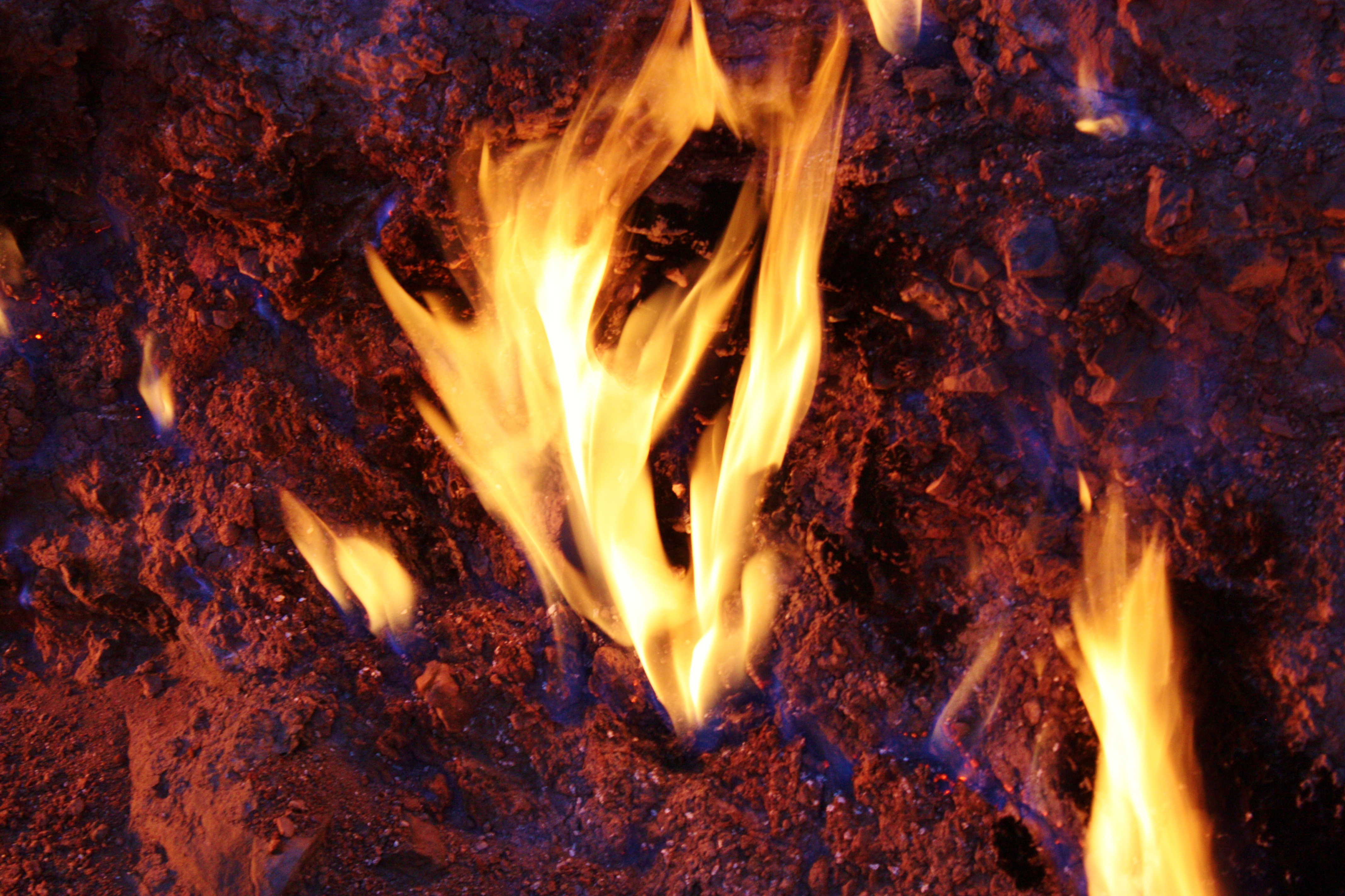 The flames at Yanar Dagh